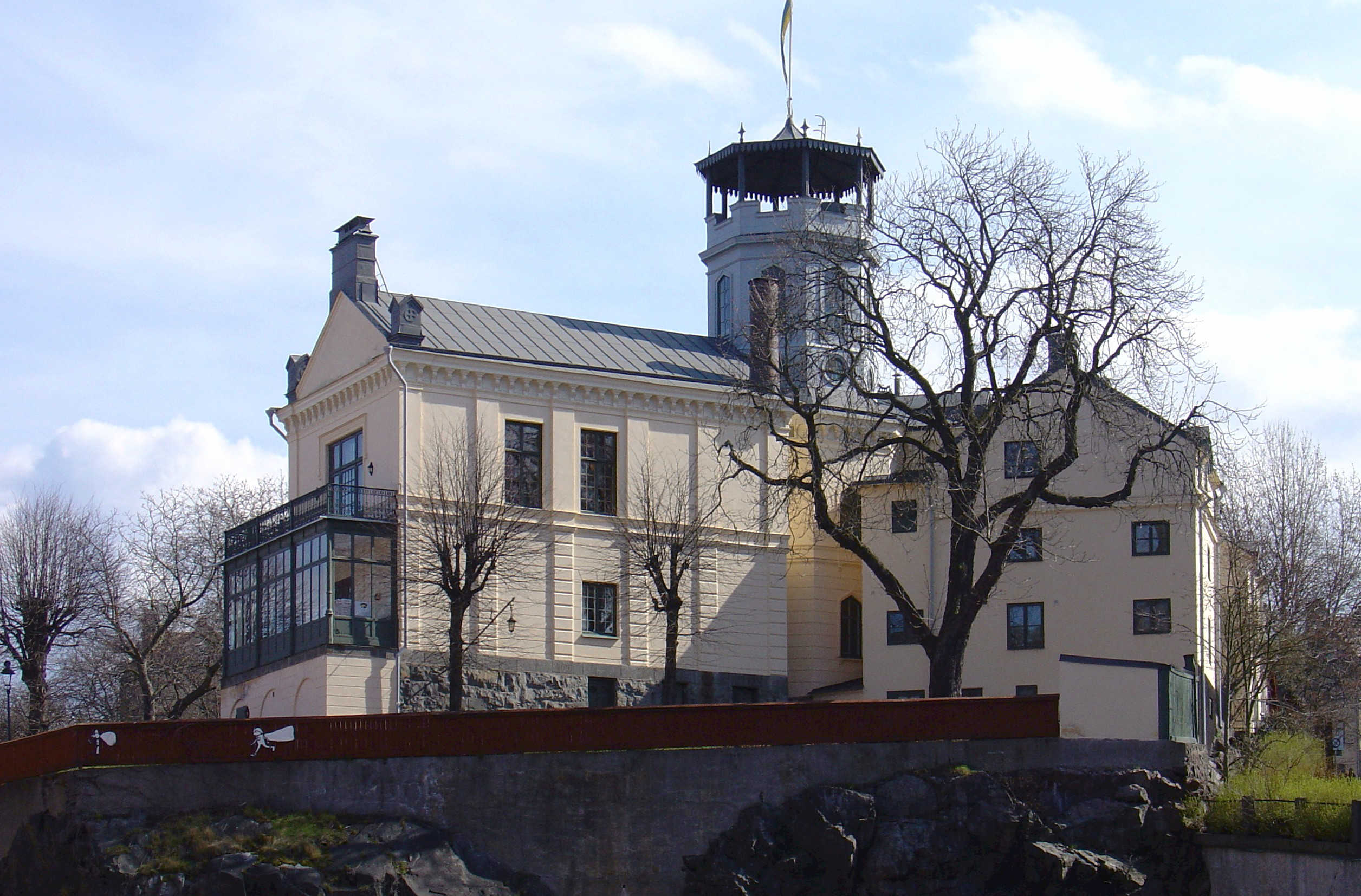 Villa Ludvigsberg on Södermalm in Stockholm